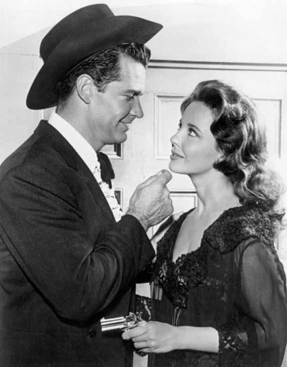 Publicity photo of James Garner as Bret Maverick and Suzanne Storrs from the television program Maverick. This episode is "Guatamala City".